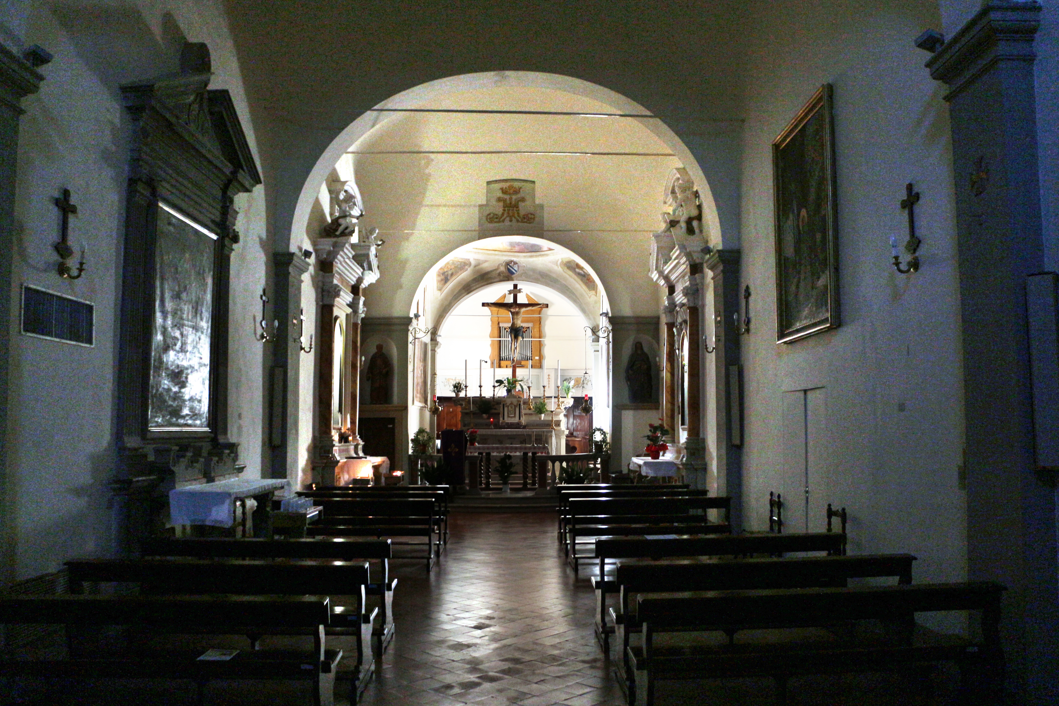 San Vivaldo church